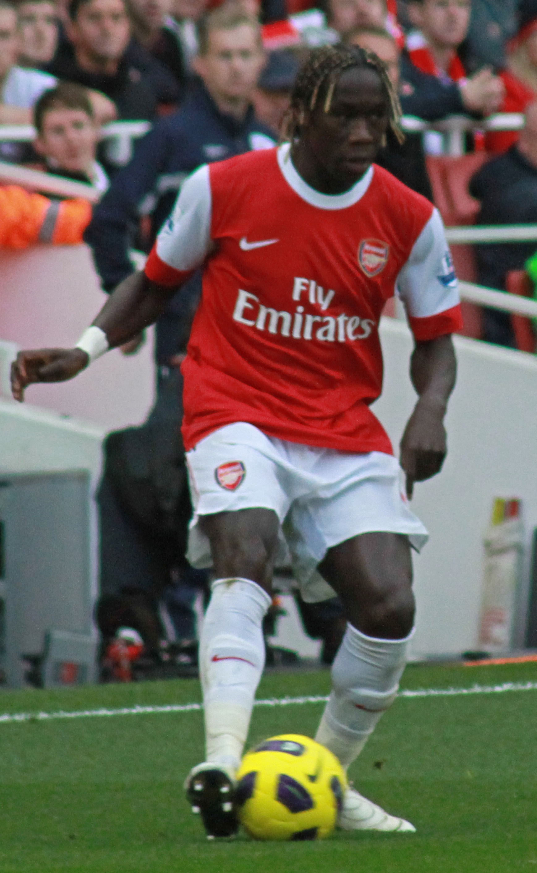 Arsenal v West Ham United at the Emirates Stadium on 30 October 2010. Arsenal won 1-0 with a late 88minute goal by Alex Song. "One - Nil to The Arsenal!"